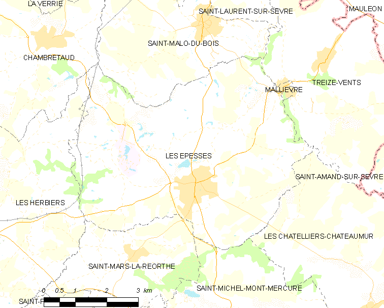 Map of French municipality Les Epesses